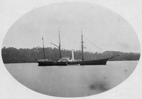 Corvette «America»